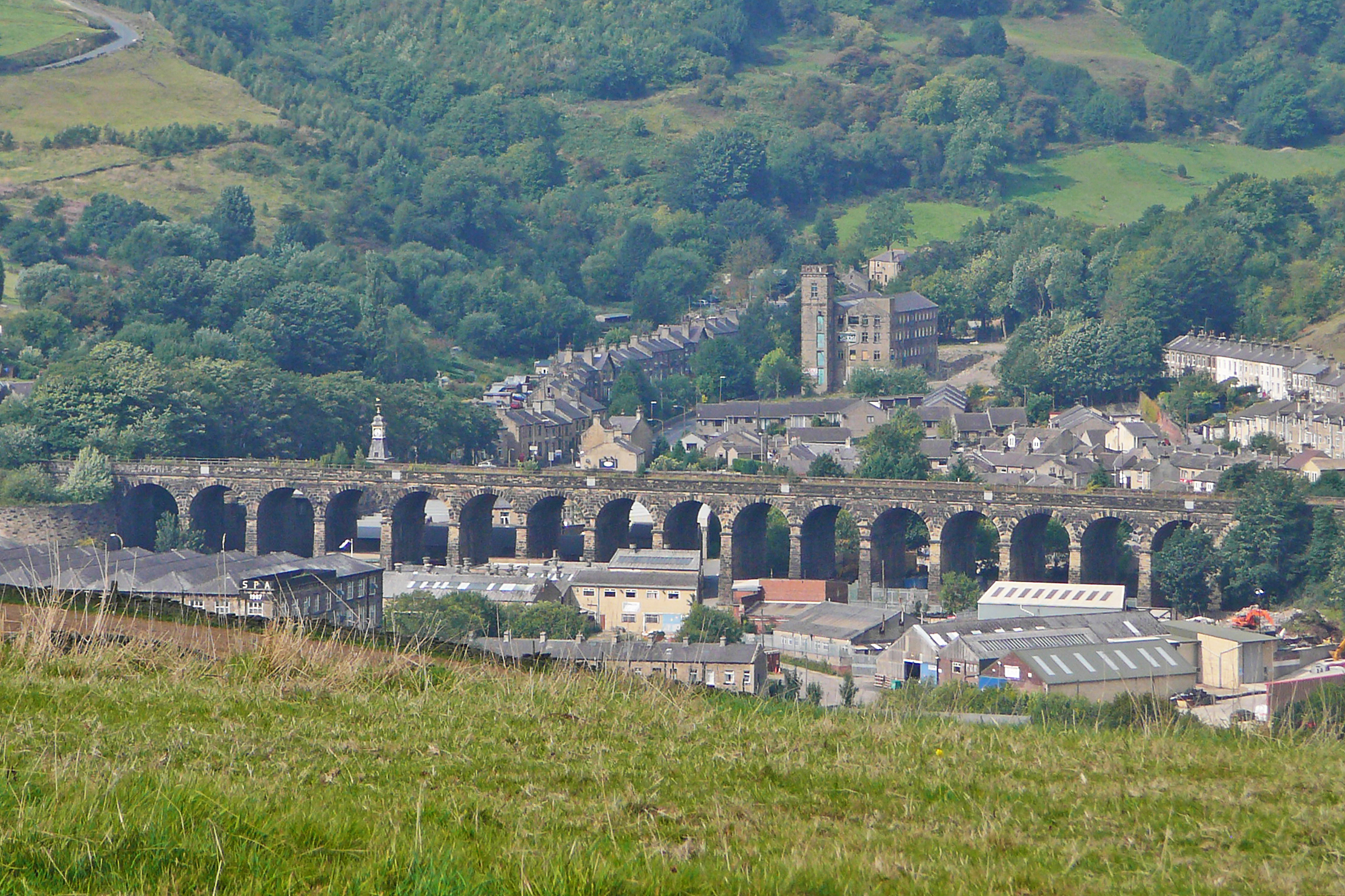 The Slaithwaite (pronounced 'slough-wit') viaduct in Slaithwaite, West Yorkshire. Taken on Sunday the 5th of September 2010.